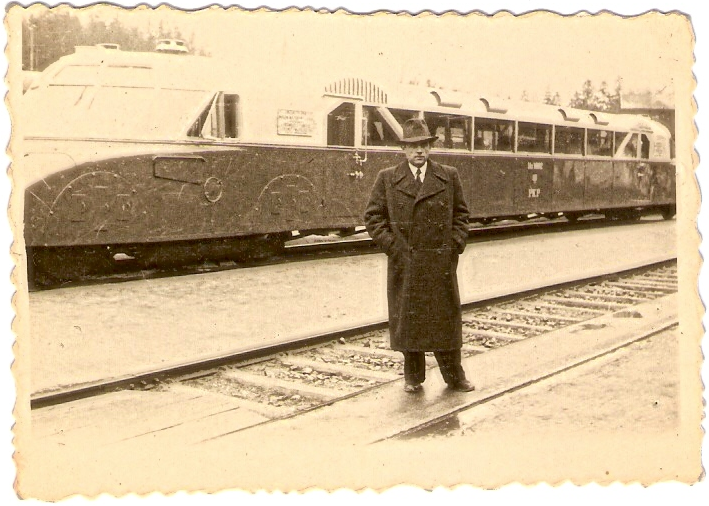 MSE Klemens Stefan Sielecki standing in front of the Luxtorpeda railcar, that he and his team developed at Fablok, at Zakopane station.